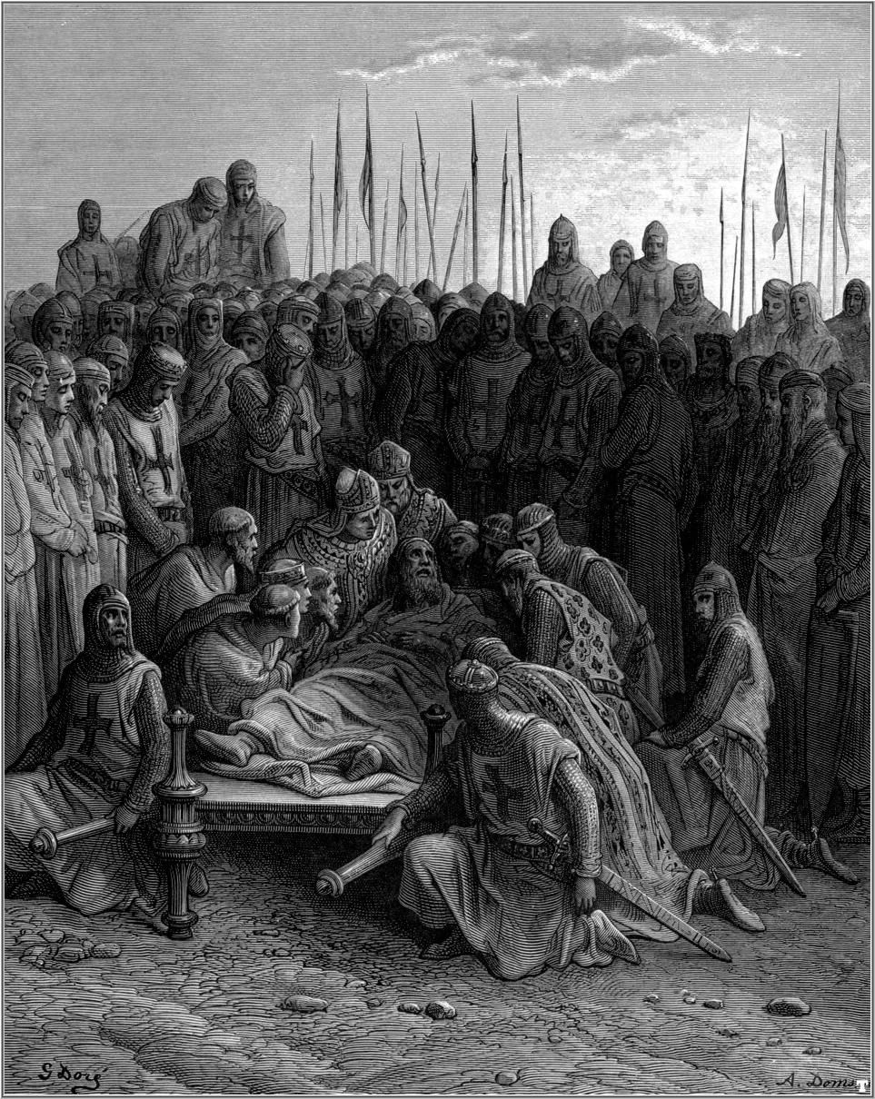 gustave_dore_crusades_death_of_baldwin_I